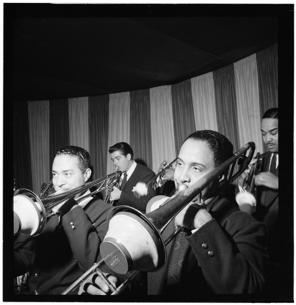 Gottlieb, William P., 1917-, photographer. [Portrait of Dicky Wells and Henry Wells, Eddie Condon's, New York, N.Y., ca. Jan. 1947] 1 negative : b&w ; 2 1/4 x 2 1/4 in. Caption from Down Beat: (Ed. Note: Dickie is on the left, Henry the right.) Notes: Gottlieb Collection Assignment No. 490 Reference print available in Music Division, Library of Congress. Purchase William P. Gottlieb Forms part of: William P. Gottlieb Collection (Library of Congress). In: "Those confoosin' Wells boys," Down Beat, v. 16, no. 3 (Jan. 29, 1947), p. 10. Subjects: Wells, Dicky, 1910- Wells, Henry, 1906- Jazz musicians--1940-1950. Trombonists--1940-1950. Eddie Condon's Format: Portrait photographs--1940-1950. Group portraits--1940-1950. Film negatives--1940-1950. Rights Info: Mr. Gottlieb has dedicated these works to the public domain, but rights of privacy and publicity may apply. Repository: (negative) Library of Congress, Prints & Photographs Division, Washington D.C. 20540 USA, (reference print) Library of Congress, Music Division, Washington D.C. 20540 USA, Part Of: William P. Gottlieb Collection (DLC) 99-401005 General information about the Gottlieb Collection is available at Persistent URL: Call Number: LC-GLB23- 0899 This work is from the William P. Gottlieb collection at the Library of Congress. Rights and restrictions.In accordance with the wishes of William Gottlieb, the photographs in this collection entered into the public domain on February 16, 2010.